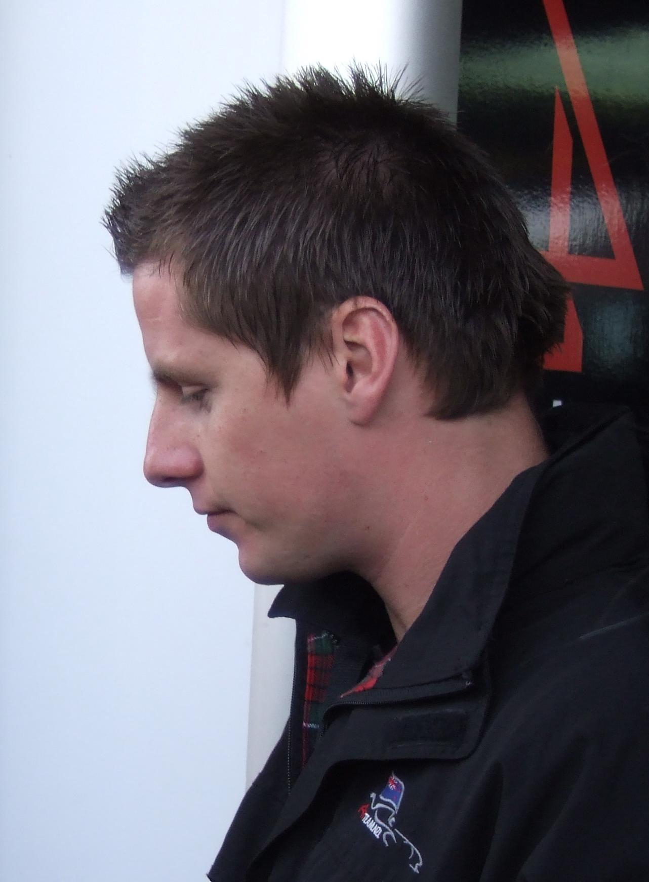 A1 Grand Prix Team New Zealand driver Jonny Reid at Brands Hatch in 2008.